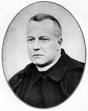 A portrait (from a photograph) of Father Adrian Fortescue (1874 – 1923)